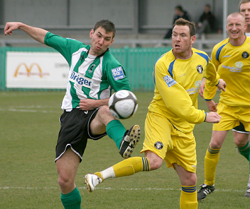 Andrew Leeson gets a foot to the ball before Trinitys Lewis McMahon